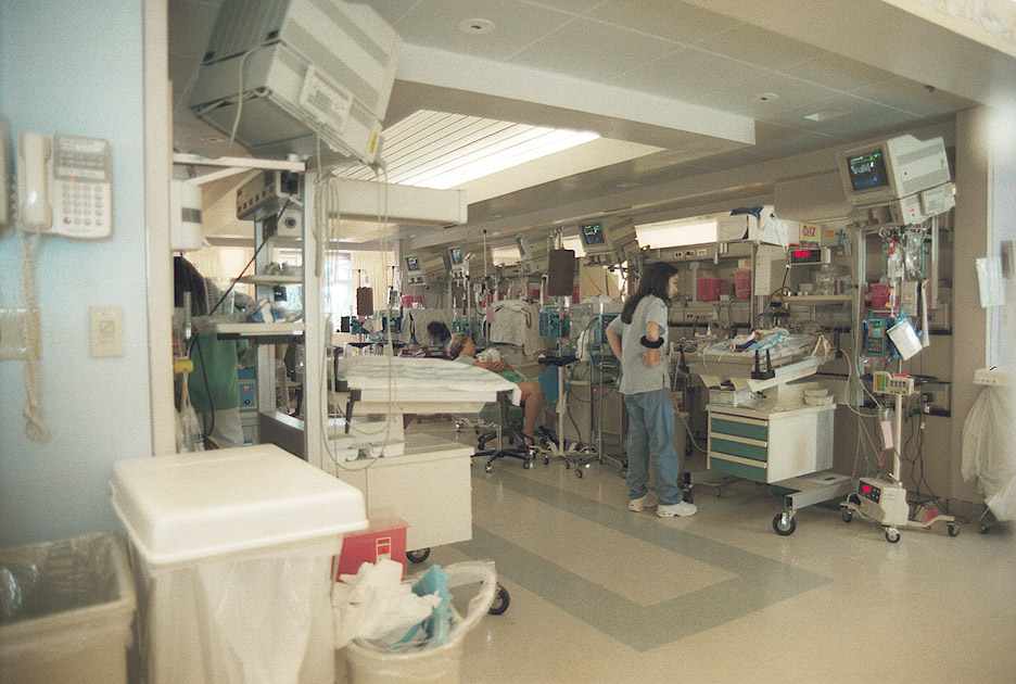 The Neonatal Intensive Care Unit (NICU) at Kapiolani Medical Center in Honolulu, Hawaii